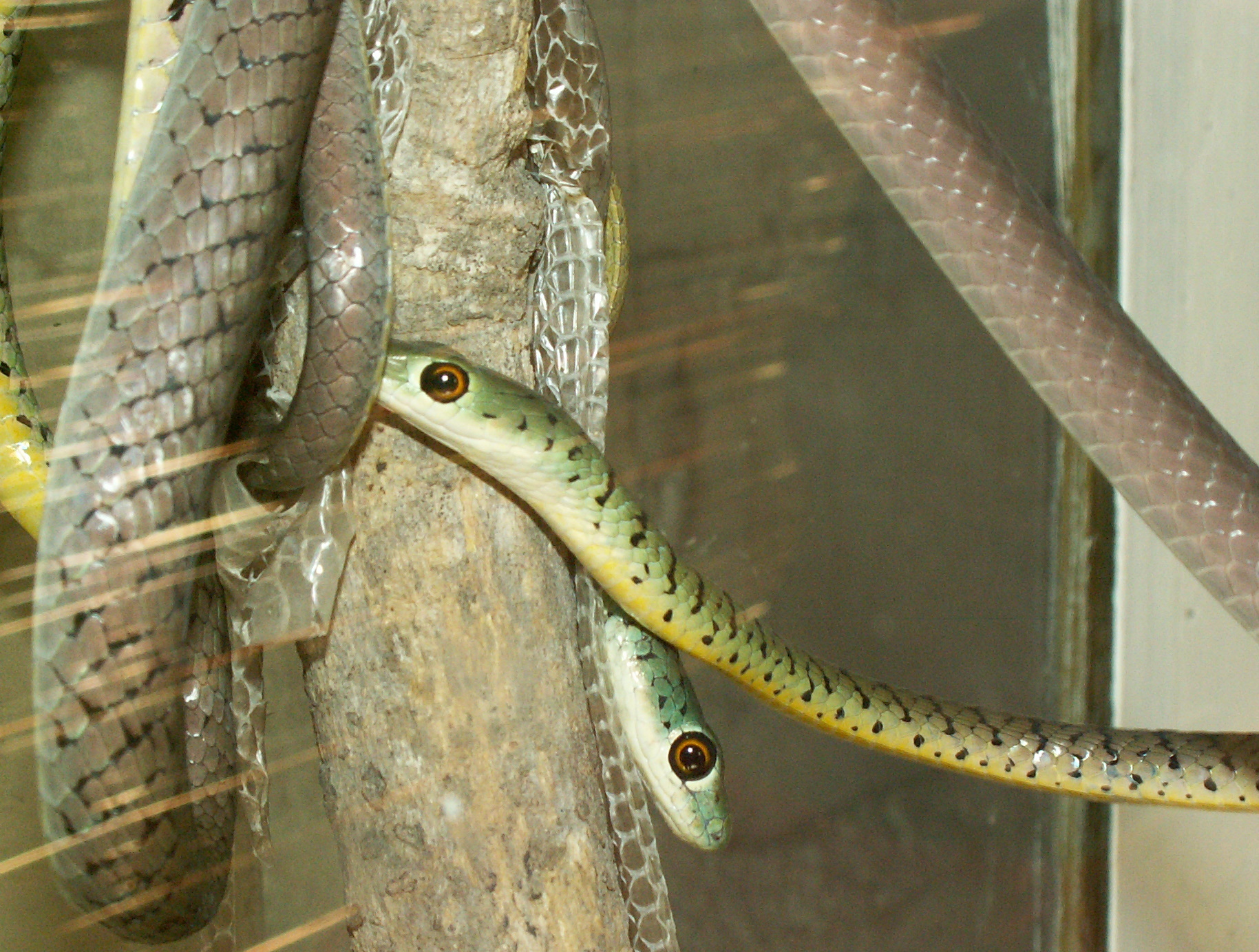 Philothamnus variegatus , the spotted bushsnake, Livingstone Zambia at a reptile farm. This may be a Philothamnus- species. -B kimmel (talk) 18:23, 14 May 2009 (UTC)